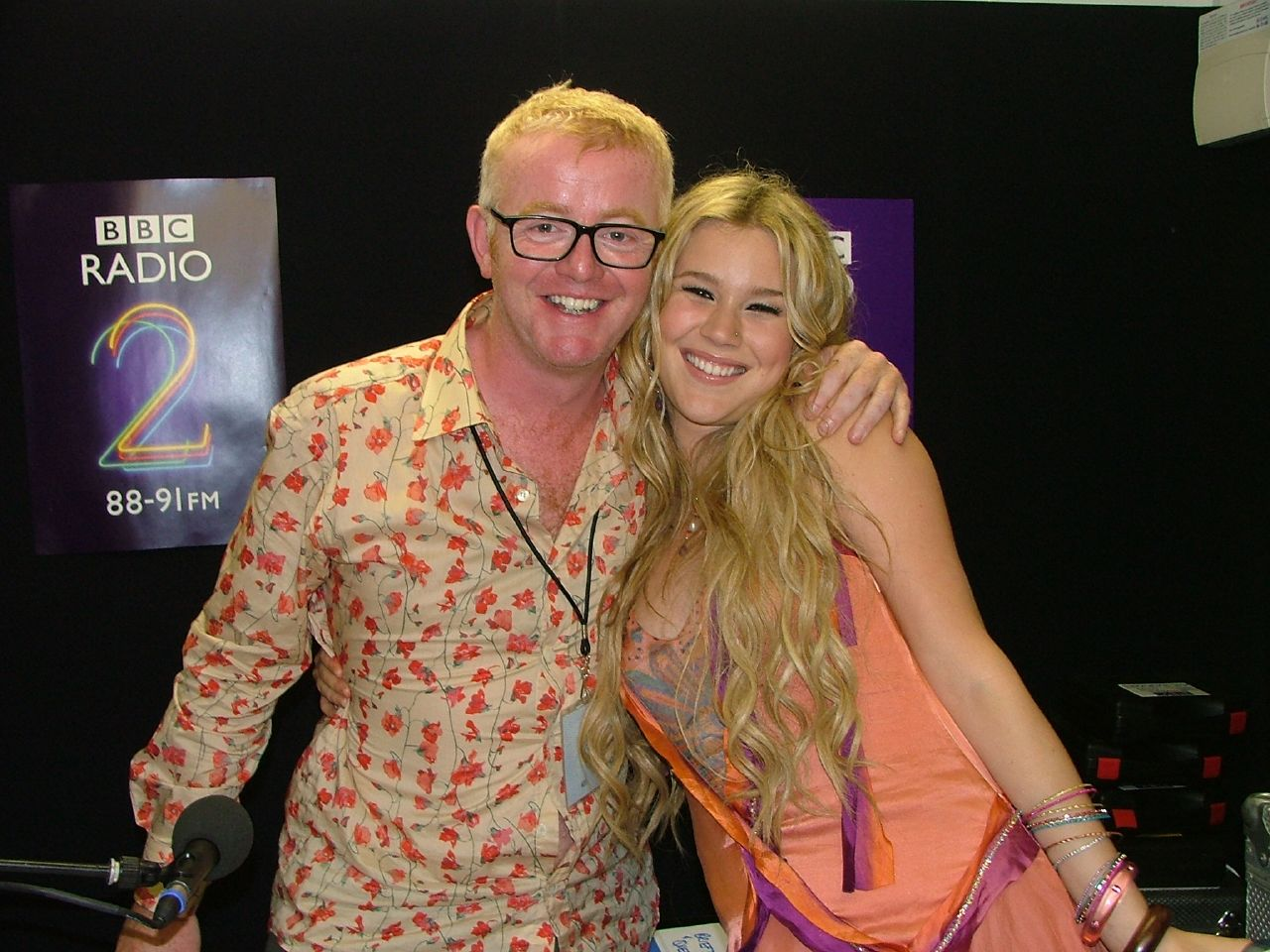 BBC Radio 2 presenter Chris Evans (presenter) (left) and Joss Stone